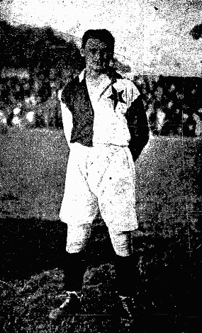 Czechoslovakian associate football player Jan Vaník